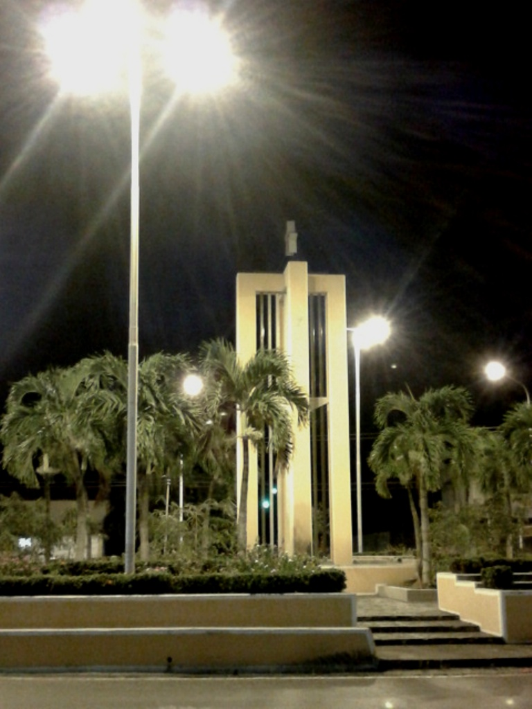 La Redoma Momument. Tucupita, Delta Amacuro State. Venezuela.